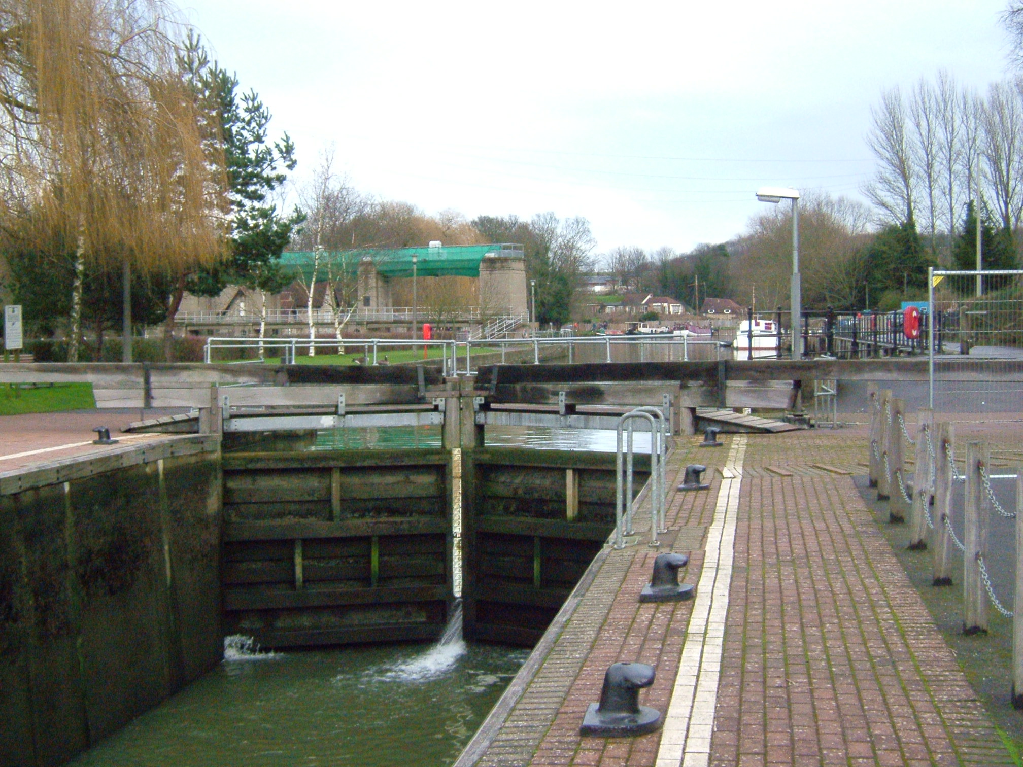 Clem Rutter. Fuji F610